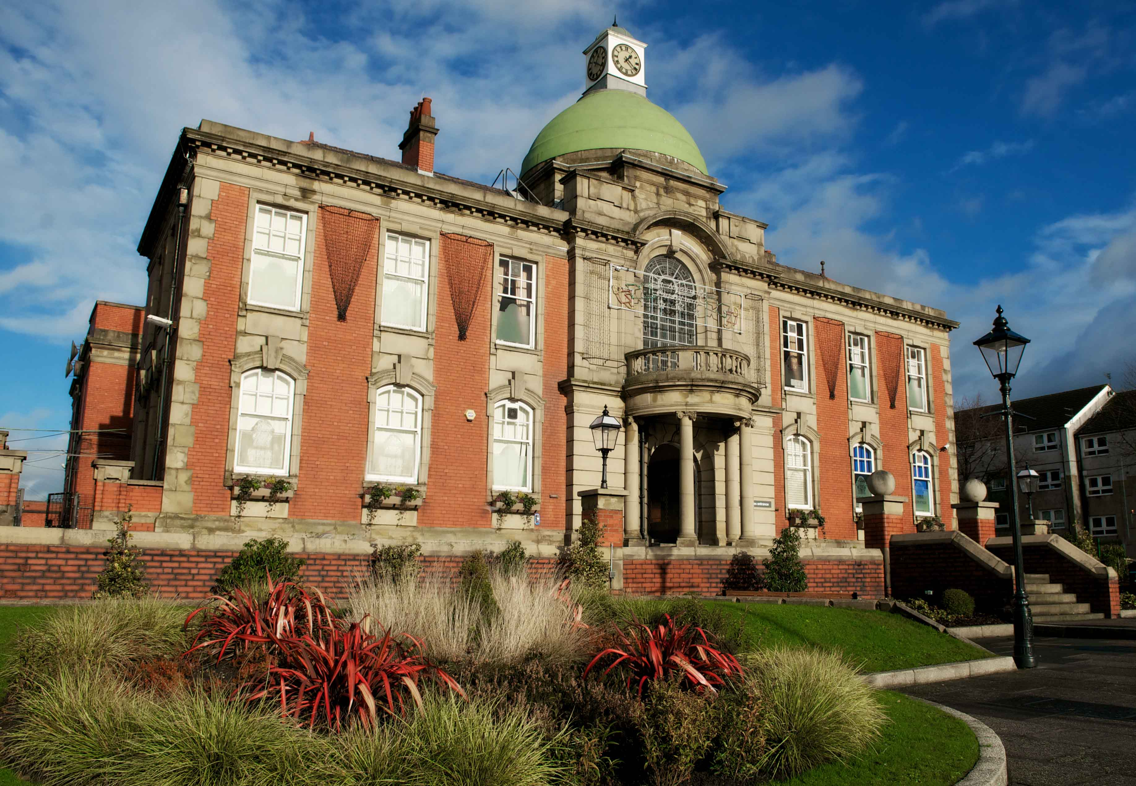 Chadderton Town Hall in Chadderton, Greater Manchester, England.